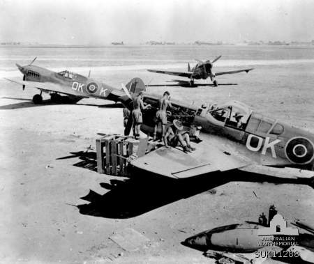 AWM caption : MALTA. 1943. GROUND CREWS OF NO. 450 SQUADRON RAAF PREPARE KITTYHAWK FIGHTER BOMBER AIRCRAFT FOR OPERATIONS SUPPORTING THE INVASION OF SICILY. IN THE BACKGROUND ARE VICKERS WELLINGTON, HANDLEY PAGE HALIFAX, DOUGLAS C47 DAKOTA AND B24 LIBERATOR AIRCRAFT.